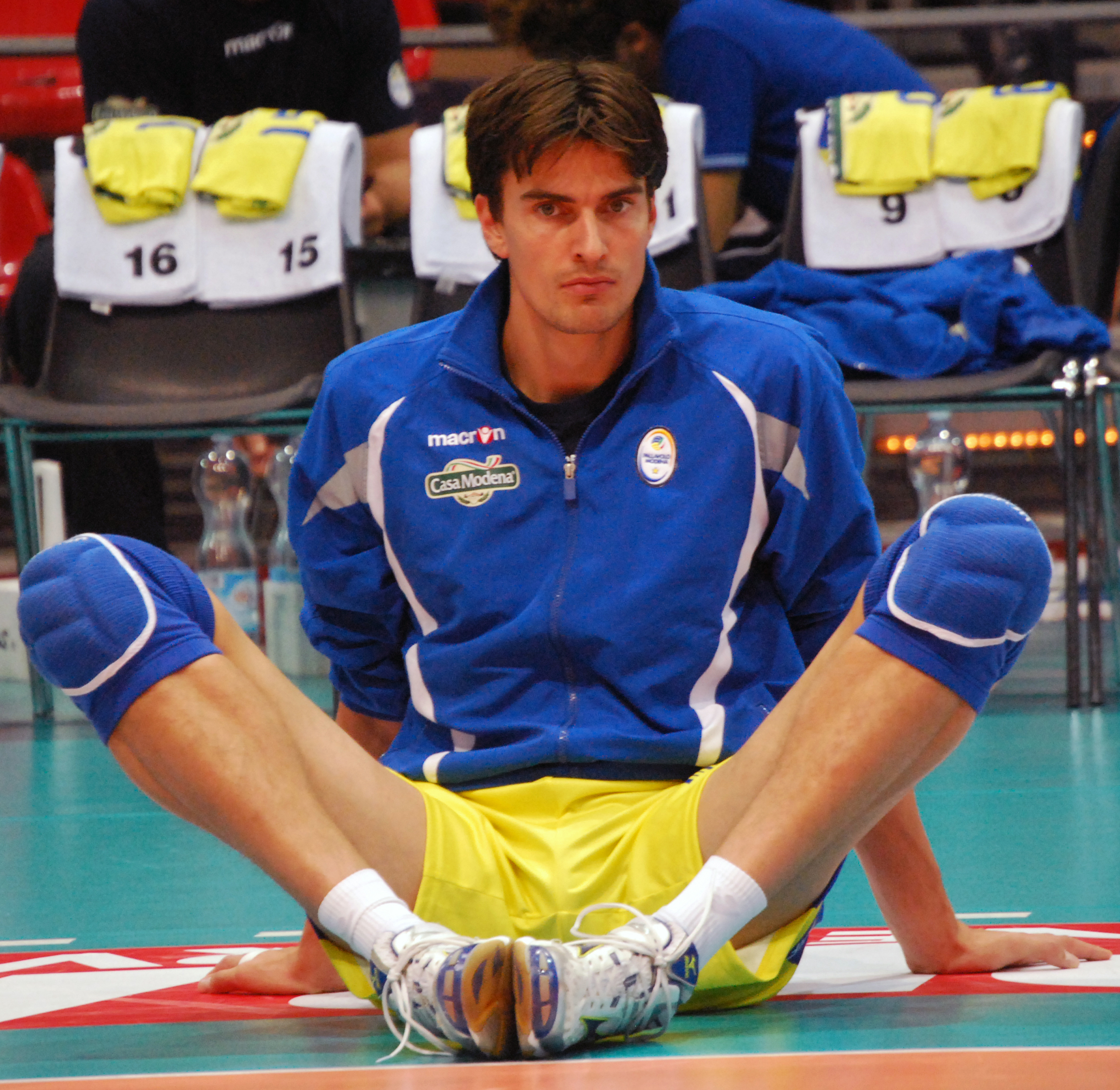 I took this pic during a volleyball match in Piacenza.